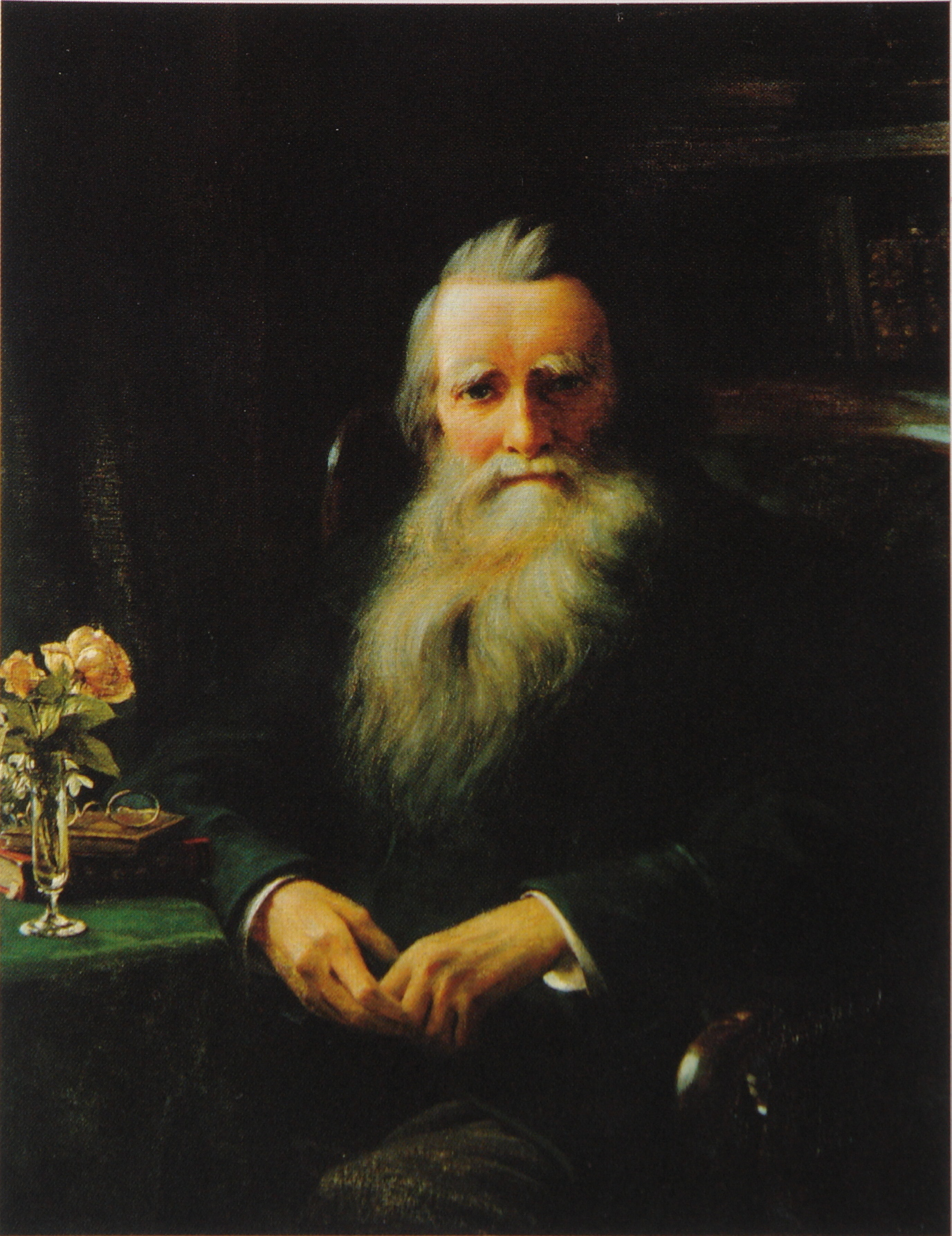 Portrait of John Ruskin, Oil on canvas